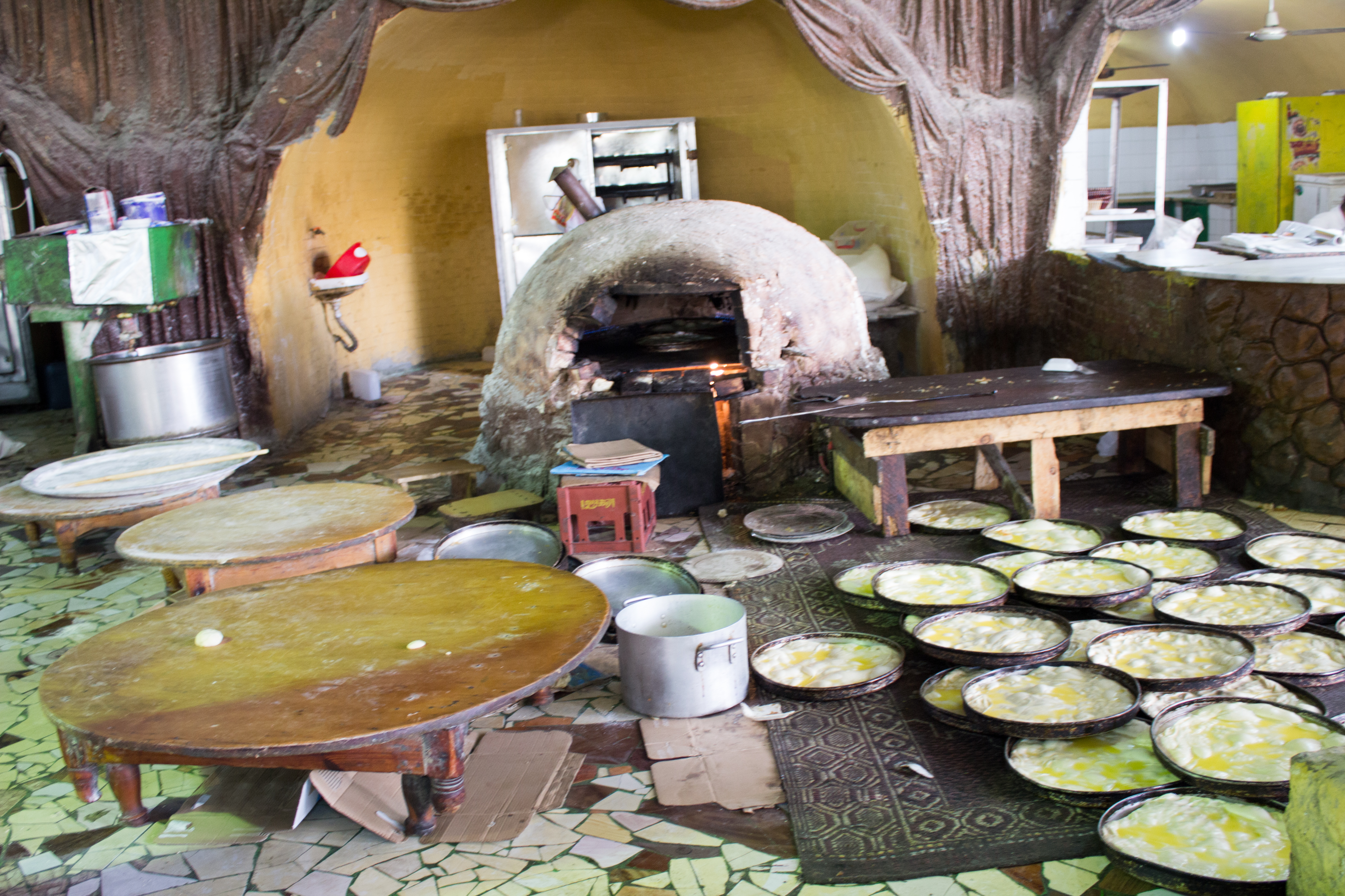 فطير مشلتت